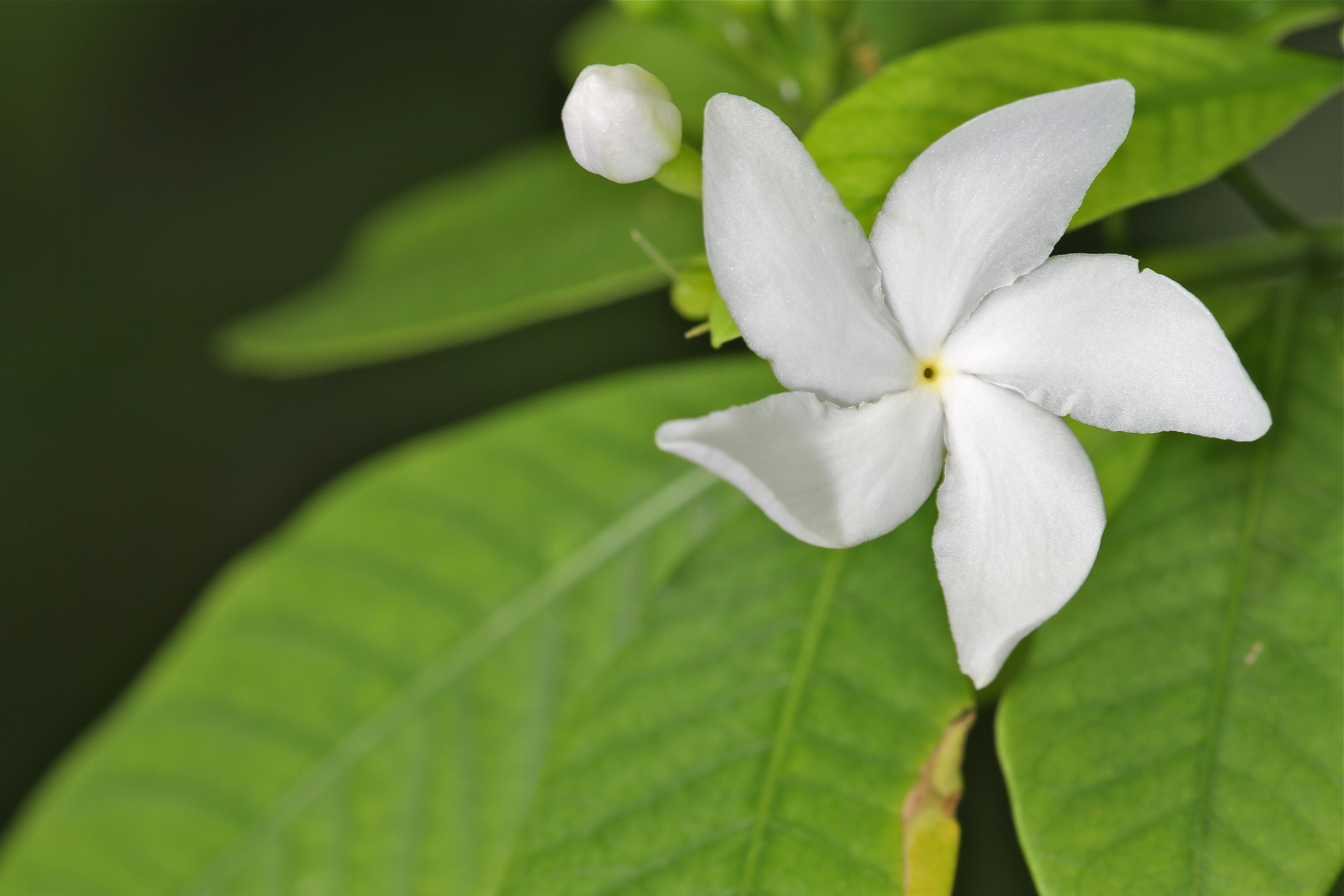 A single Flower and a closed Bud of Tabernaemontana orientalis.